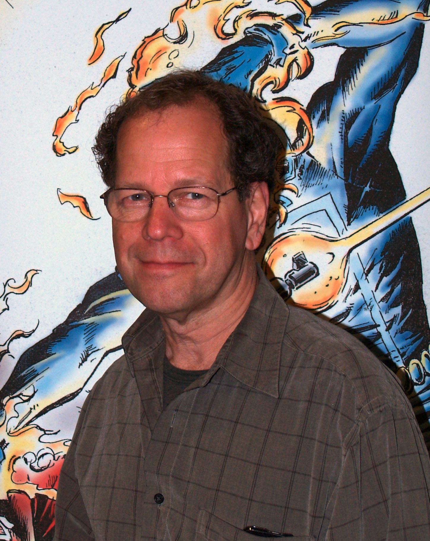 Comics creator Bob Budiansky at the Meadowlands Exposition Center in Secaucus, New Jersey on April 11, 2015, Day 1 of the 2015 East Coast Comicon. This photo was created by Luigi Novi. It is not in the public domain, and use of this file outside of the licensing terms is a copyright violation.